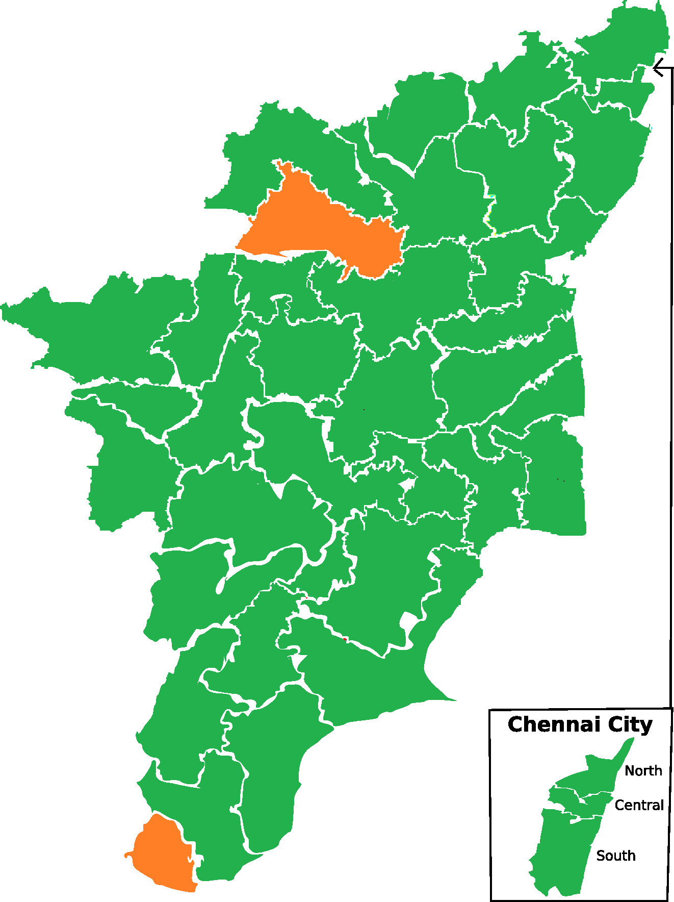 2014 Tamil Nadu Lok Sabha result. Green = AIAMDK and Orange = NDA